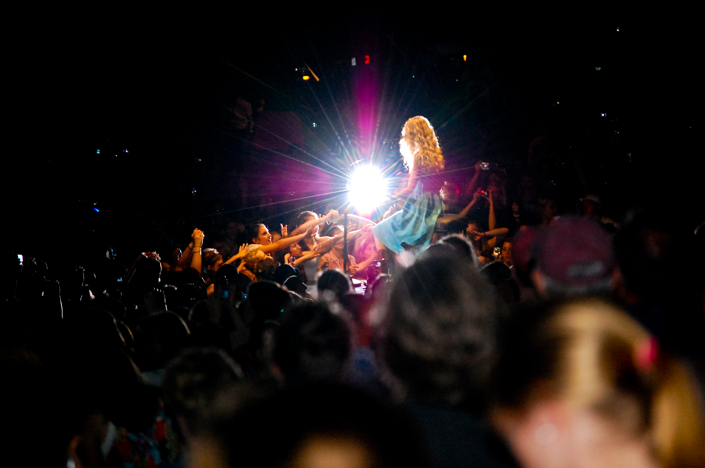 Taylor Swift cantando